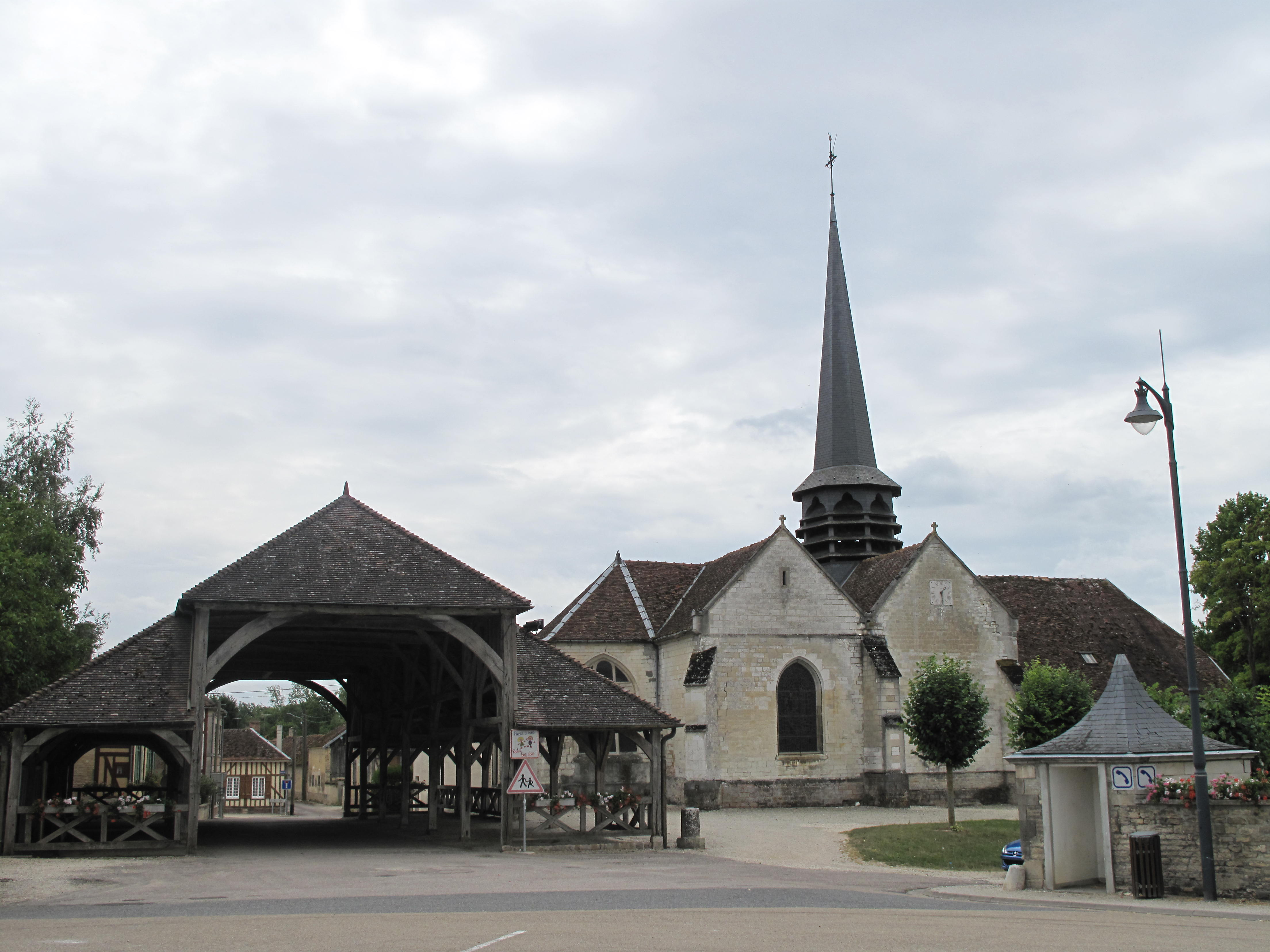 The church and the market hall of Lesmont (Aube, France).